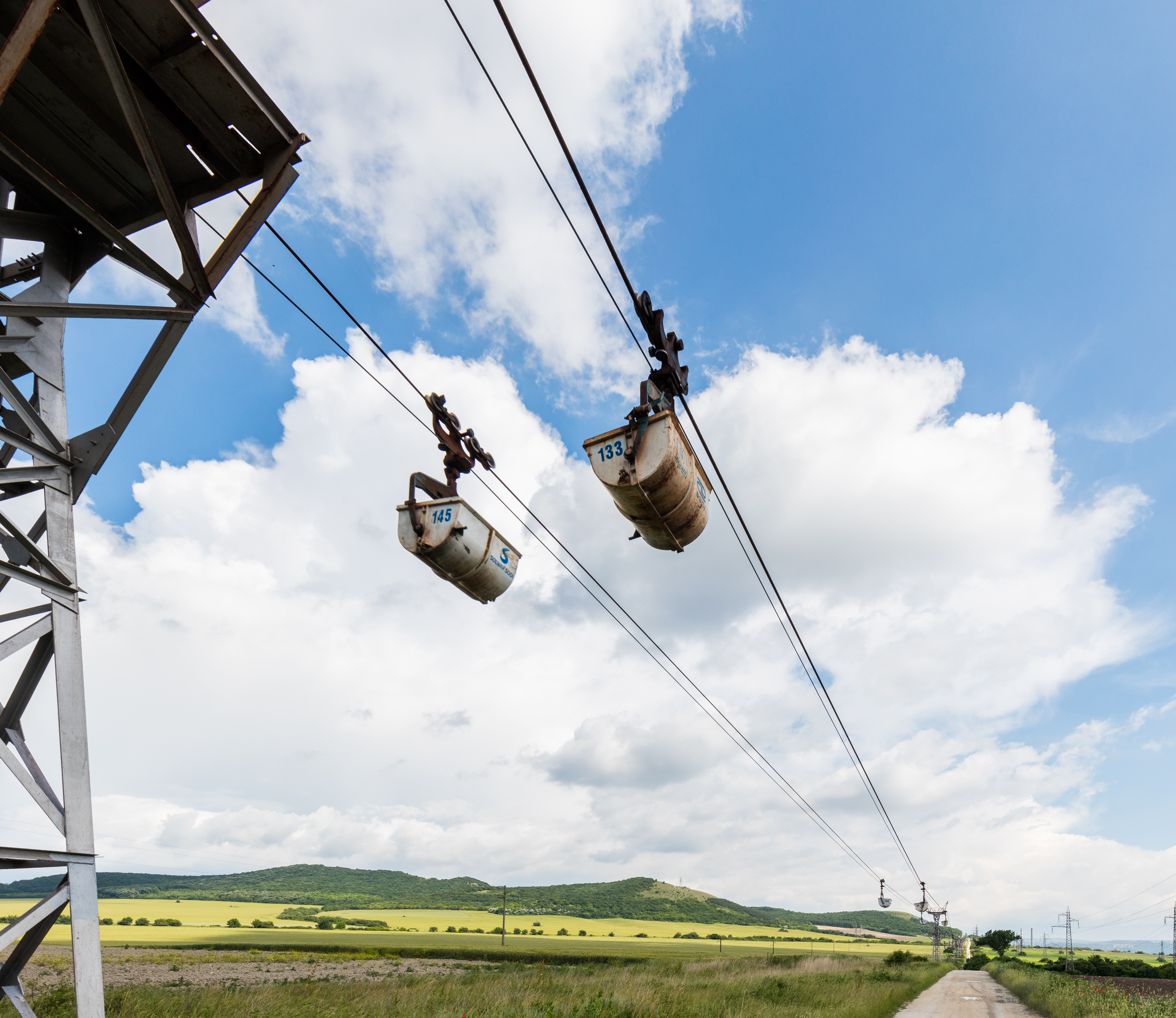 Mineral cable transport, Bulgaria